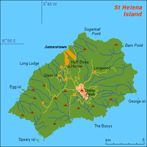 Map (rough) of St Helena island, St Helena, own work composed from various mapreferences